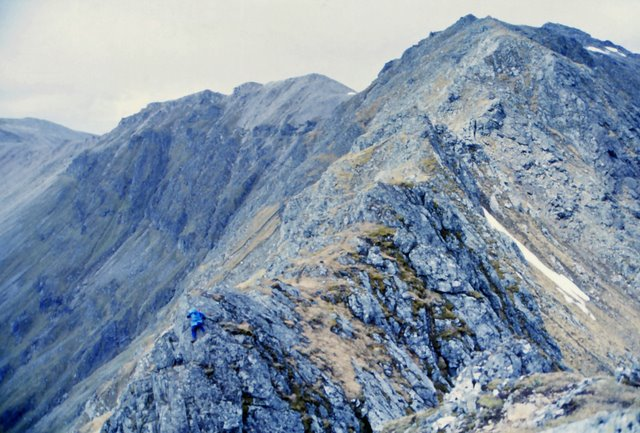 Ben Mor Assynt's South Ridge Looking towards the main summit, in the foreground my companion J P is on the one rather tricky section of the ridge.